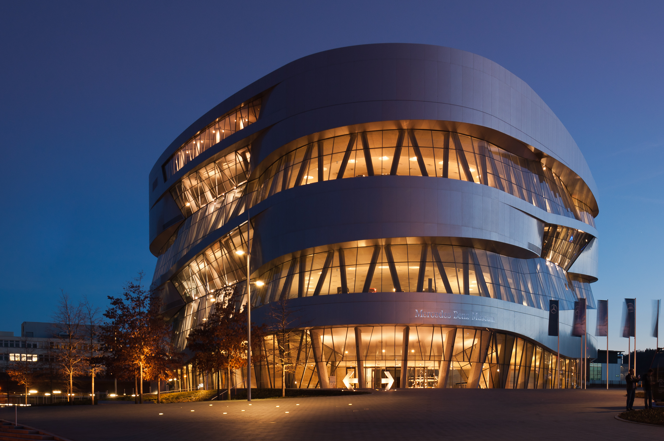 Mercedes-Benz Museum in Stuttgart, Germany, during blue hour.